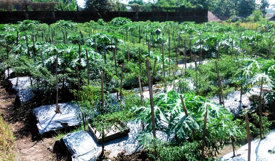 Polyculture of papaya and chillipepper, Bantul, Yogyakarta. 2015.